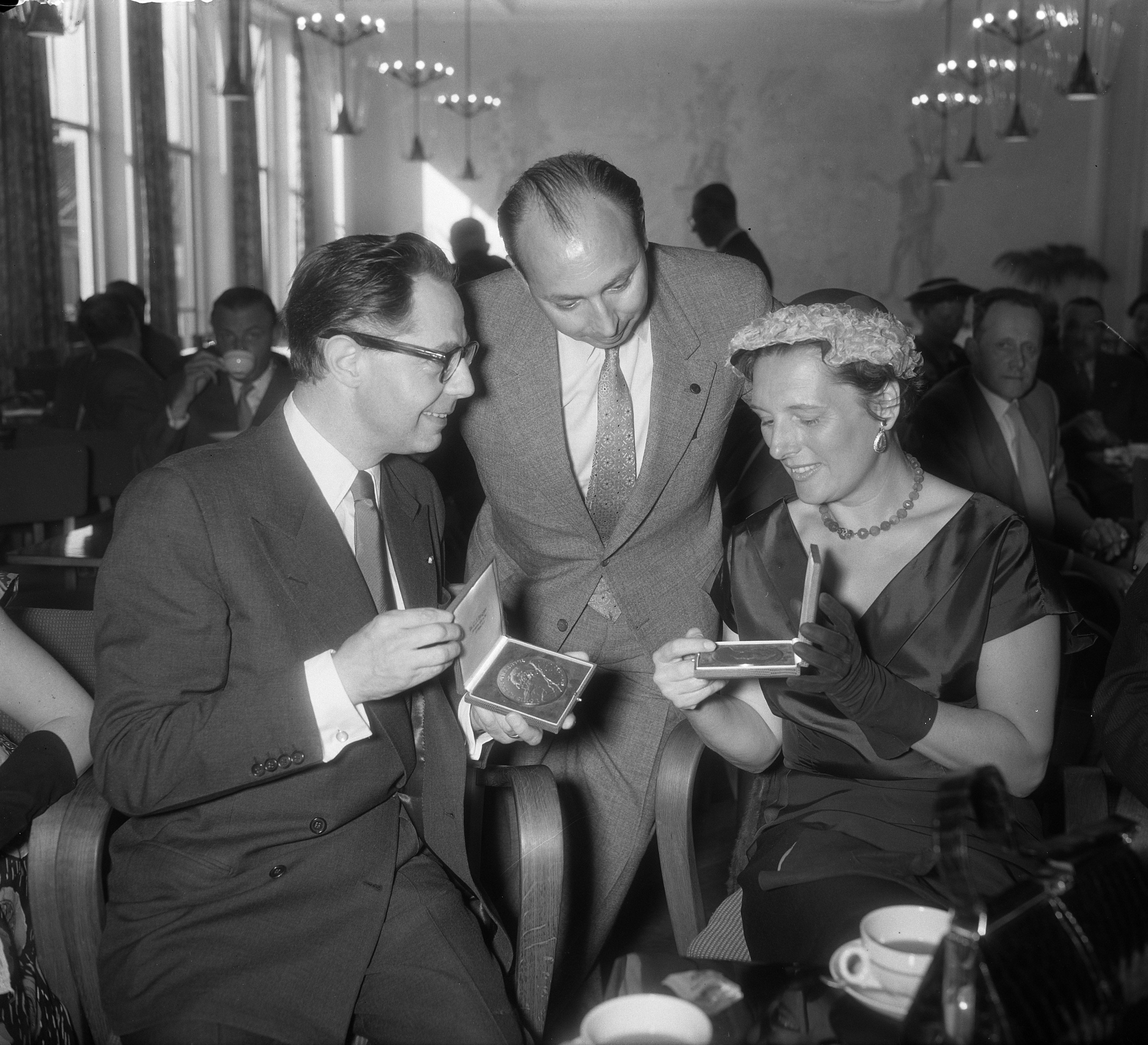 Ank van der Moer en Paul Steenbergen ontvangen gouden medailles te Deventer (beste toneelspeler en -speelster seizoen 1954-1955) Eerste uitreiking van de acteerprijzen Louis d'Or en Theo d'Or. V.l.n.r.: Paul Steenbergen, jurylid W.Ph. Pos (directeur van de Toneelschool te Amsterdam), Ank van der Moer.